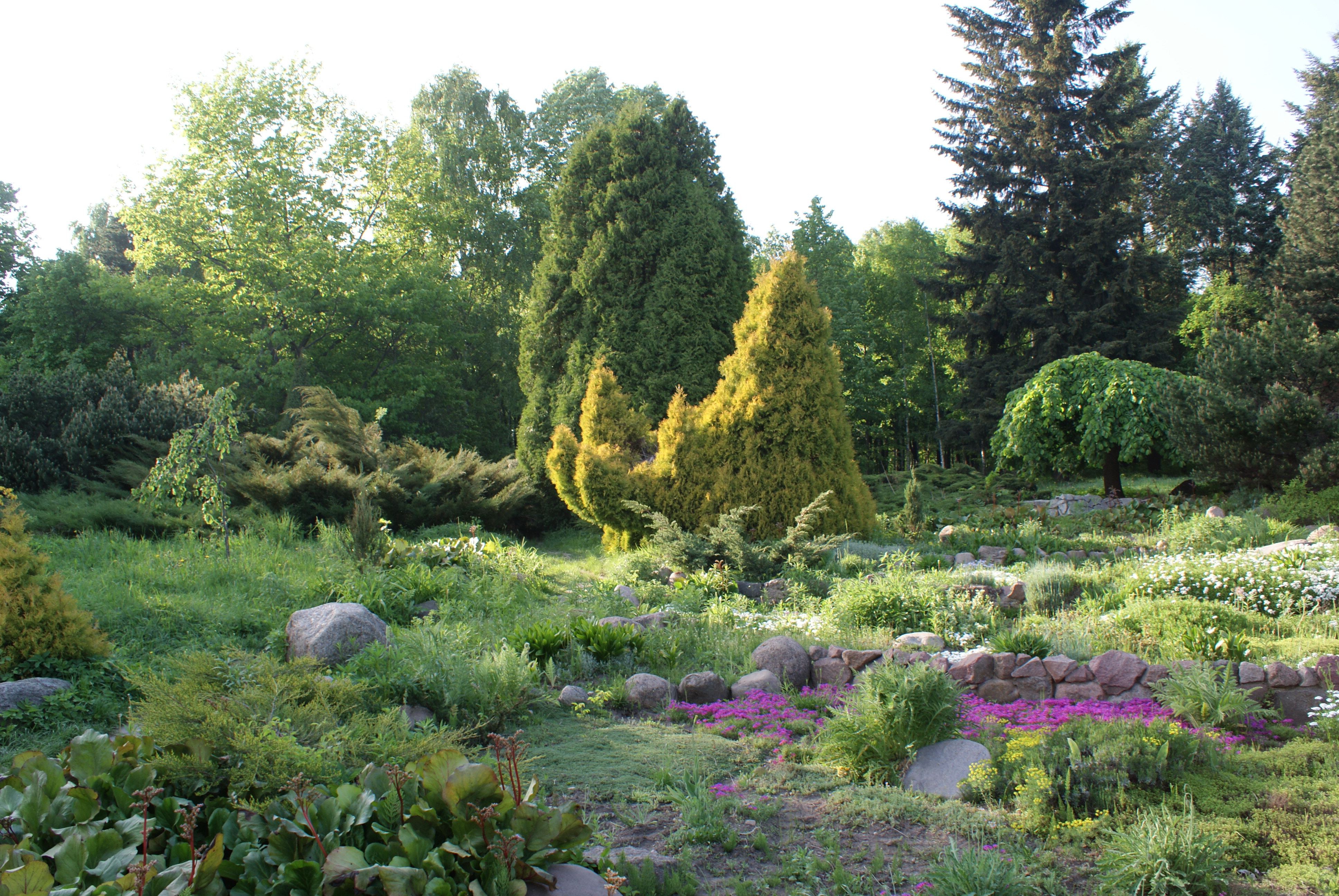 Botanical garden, Minsk